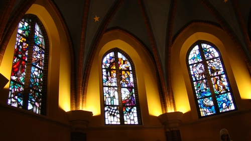 Windows Of The New Calixtus church